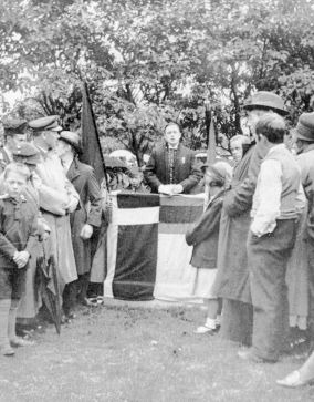 Edward Mitens giving a speech